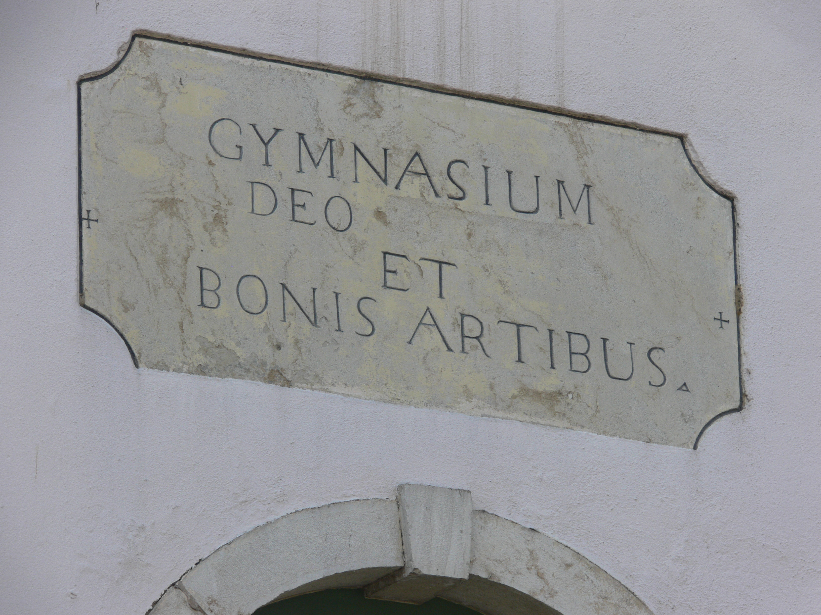 Motto on the wall of "collège Gérôme" (middle-school) in Vesoul (Haute-Saône, France)